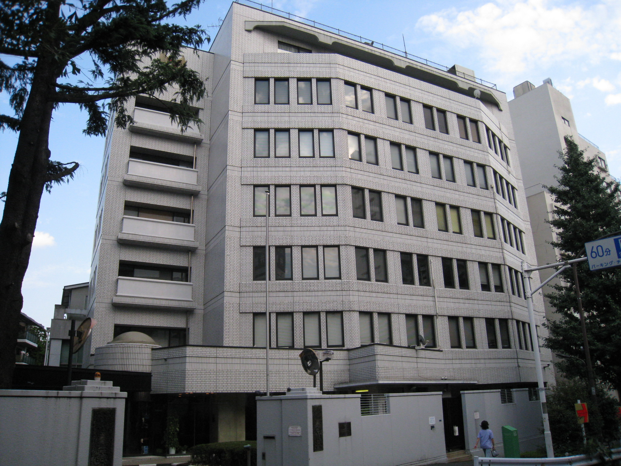 Embassy of Indonesia, in Tokyo. Higashi-Gotanda, Shinagawa, Tokyo, Japan